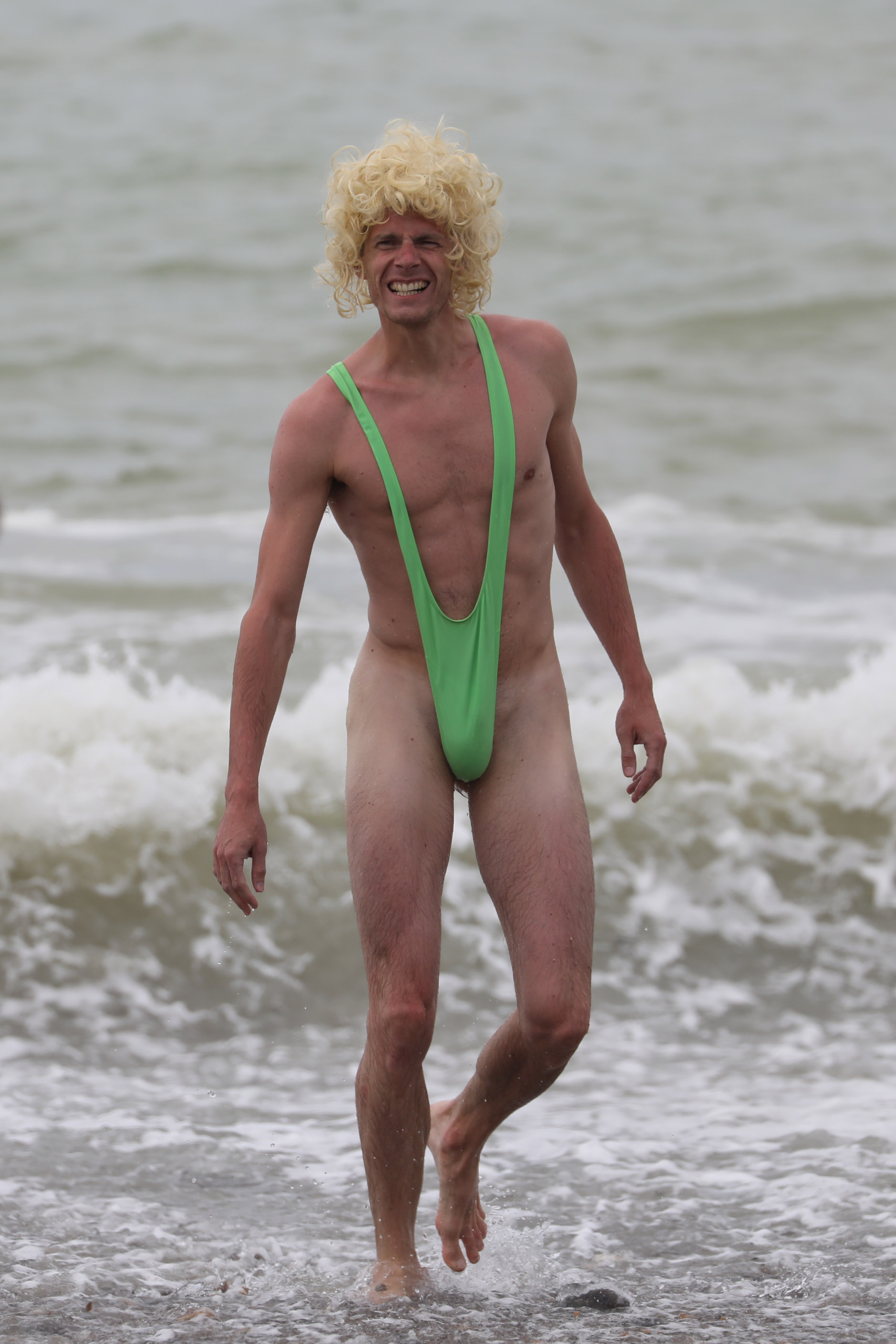 Strange and funny man wearing a green mankini like Borat Sagdiyev on the beach of Dieppe in France - from the sea, smiling with his blond wig